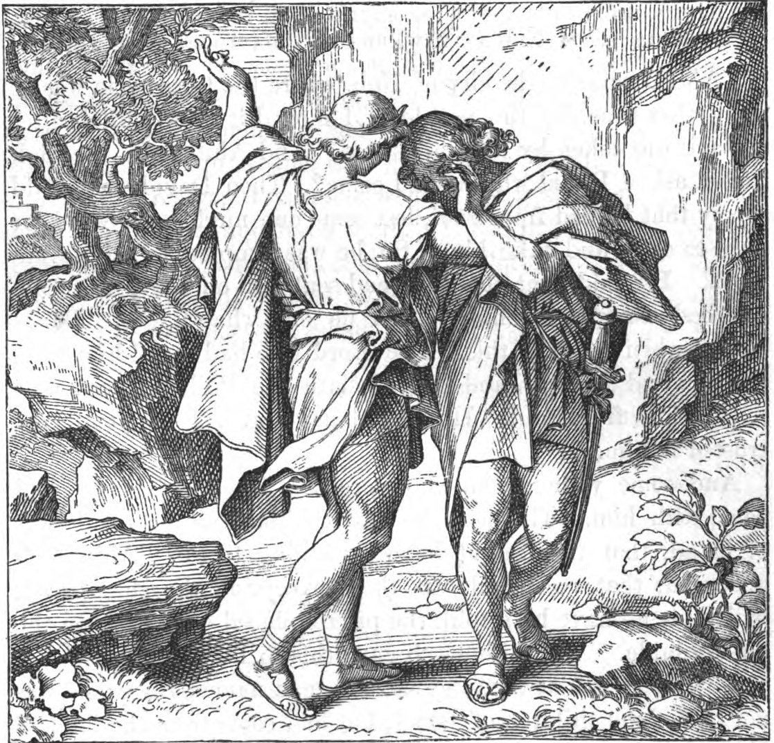 The parting of David and Jonathan.